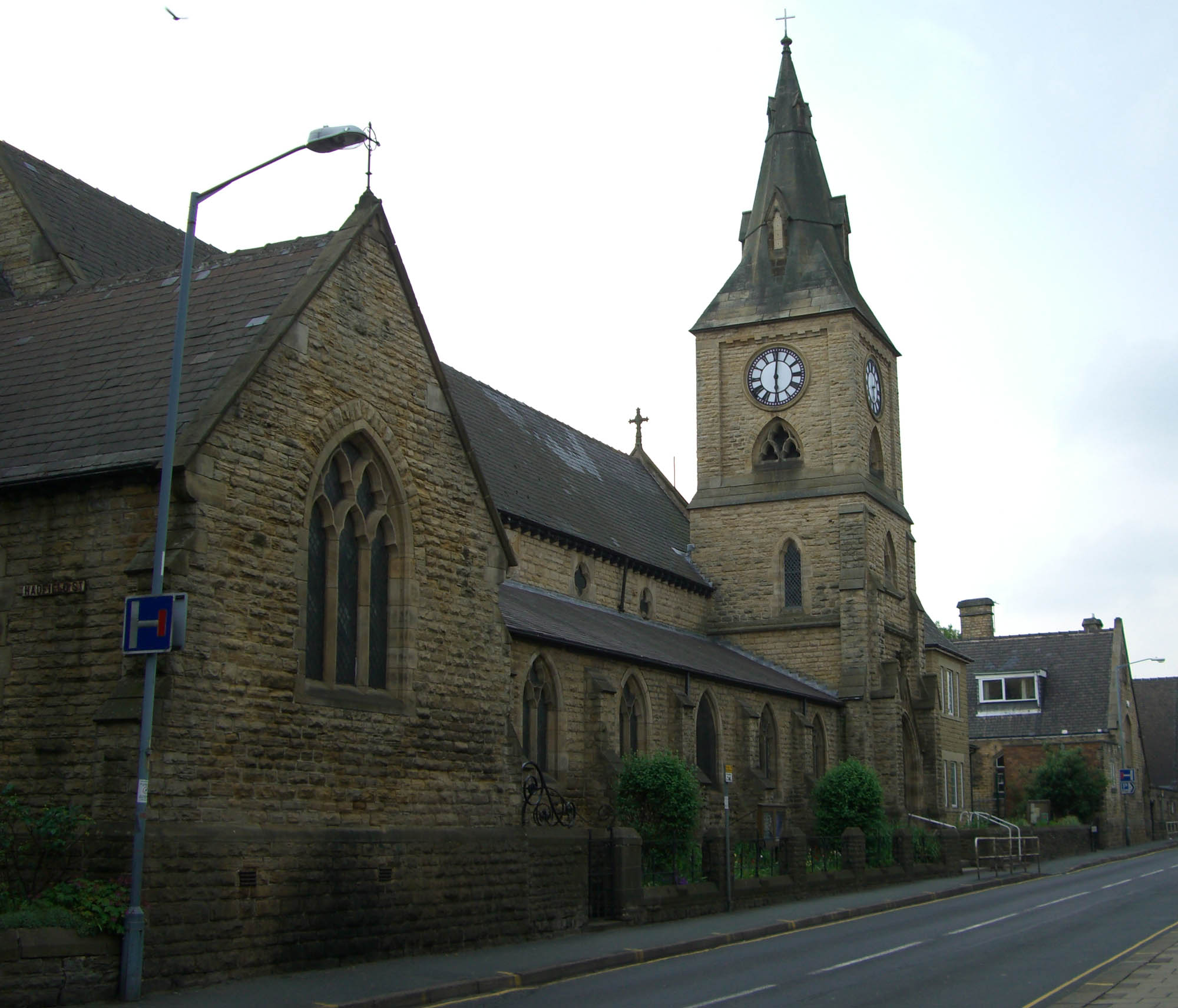 St Mary's parish church, South Road, Walkley, Sheffield, South Yorkshire, seen from the southeast